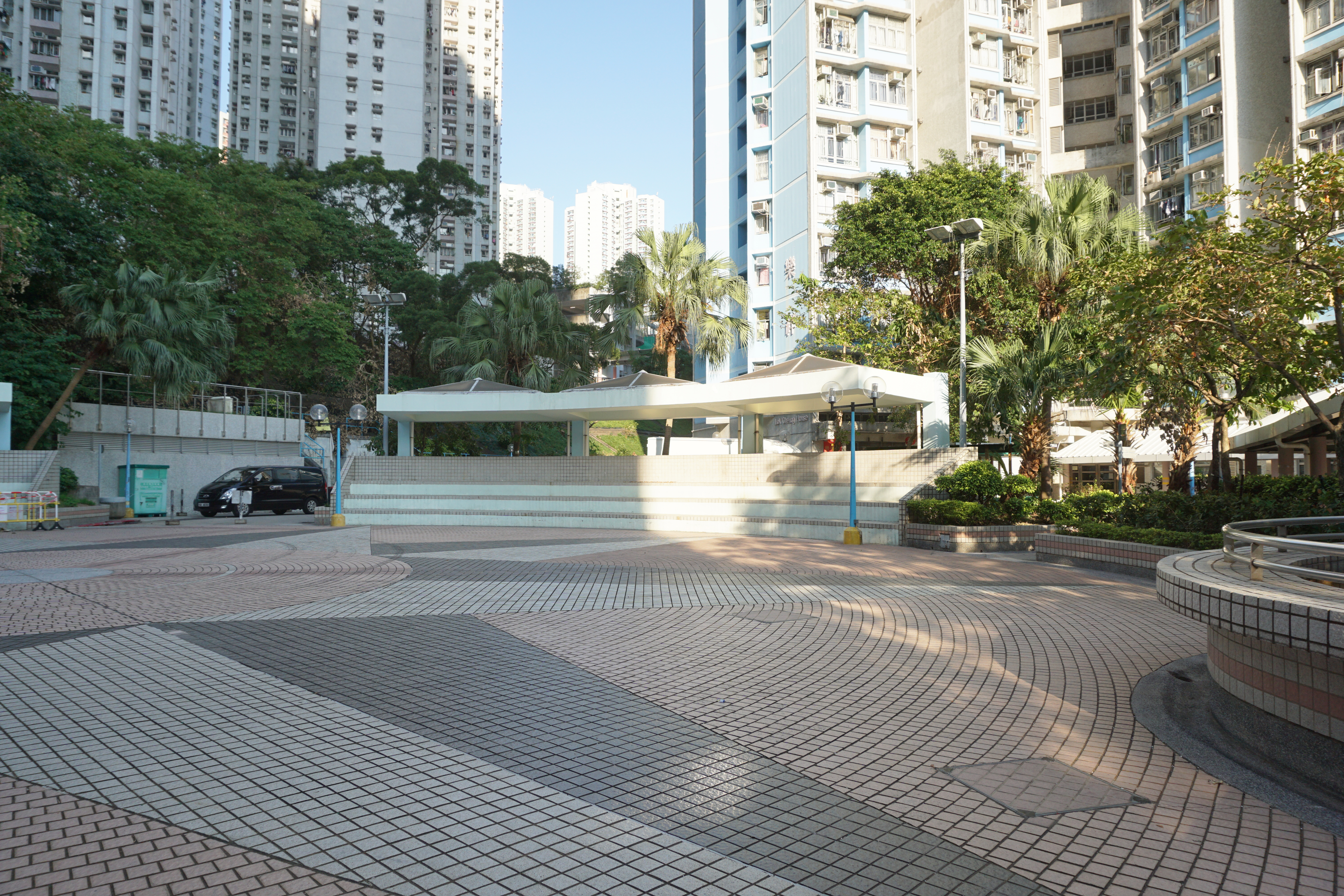 Tsz Lok Estate in Tsz Wan Shan, Hong Kong.